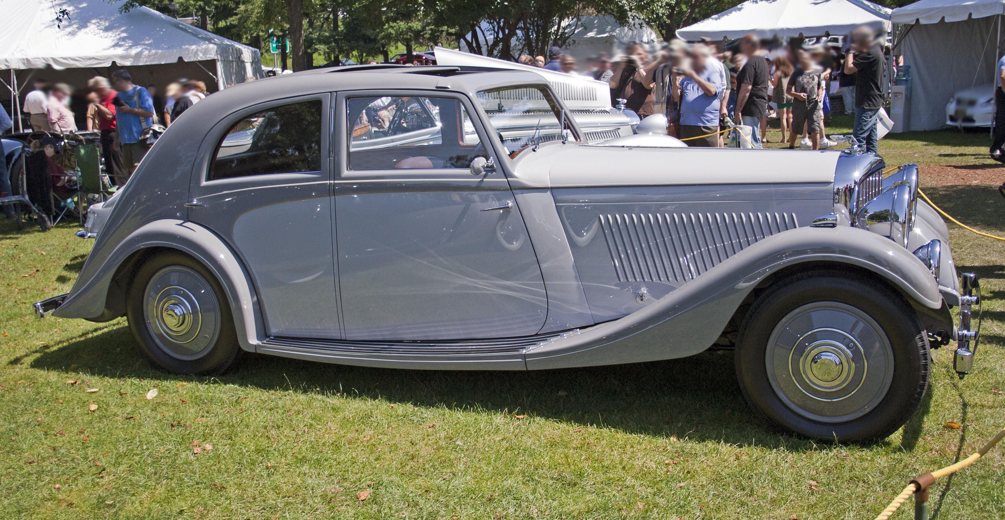 1935 Bentley 3 1/2 Litre Aerodynamic Sports Saloon, coachwork by Rippon Bros. One of only two built and the only survivor, this Derby Bentley has chassis #B103CW and engine #B3BB. Said engine is a 3,669 cc (in spite of the name) OHV inline-six with twin SU carburetors and 115 bhp at 5,000 rpm. It has a four-speed manual box and four-wheel servo'd drum brakes, along with leaf-sprung front and rear suspension. Seen at the 2012 Greenwich Concours d'Elegance in beautiful two-tone gray.